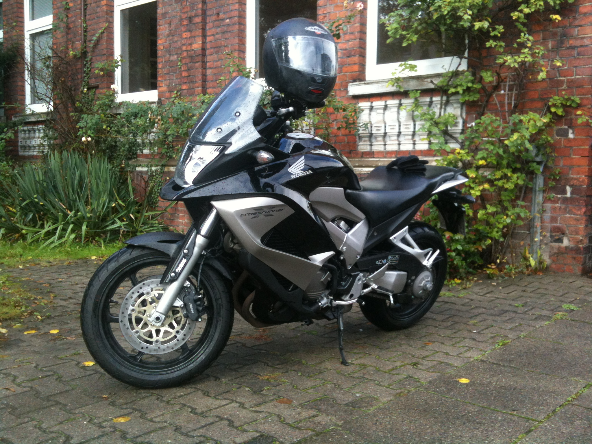 Motorcycle: Honda VFR 800X Crossrunner